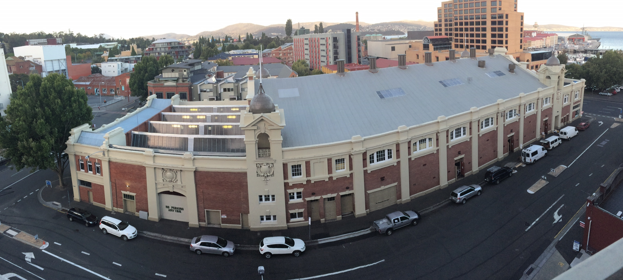 Hobart City Hall, Macquarie St, Hobart Tas. Photo taken from level 8 of Market Place Car Park using iPhone Panorama function